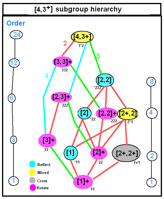 tetrahedral symmetry subgroup relations Error: The violet [2,3]+ should be a gray [2+,6+], as in the alternative file below. (The actual [2,3]+ can be seen among the rotational subgroups.)